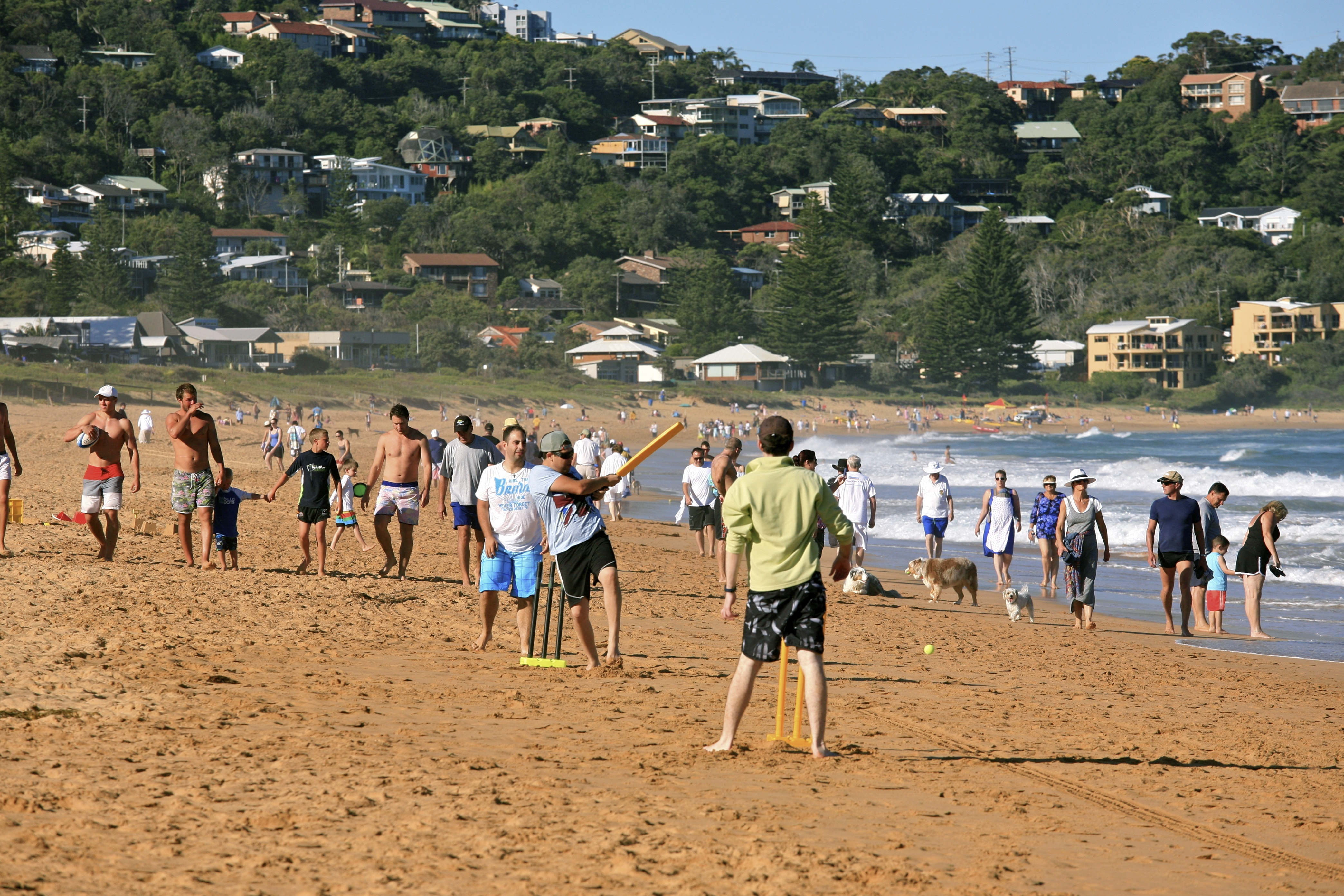 Hit Him for Six